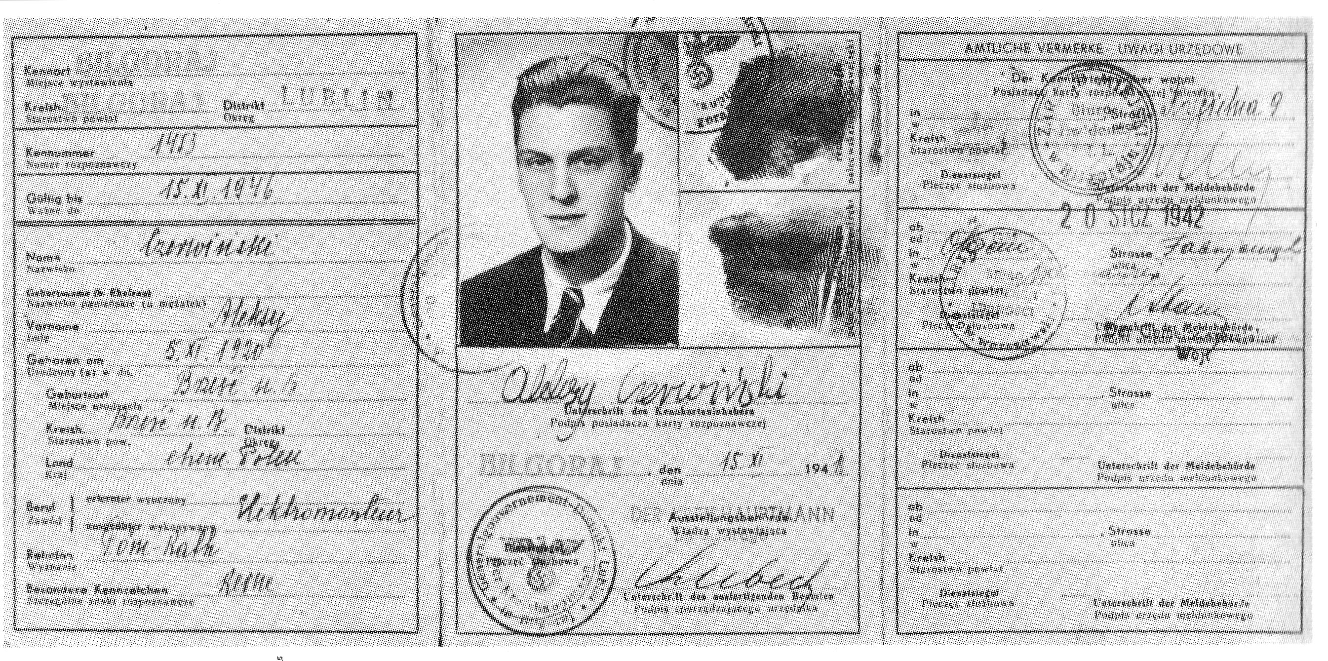 Forged Kennkarte of Maciej Aleksy Dawidowski issued in the name of Aleksy Czerwiński